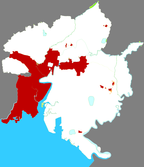 Location of Xinglongtai district in Panjin City, China